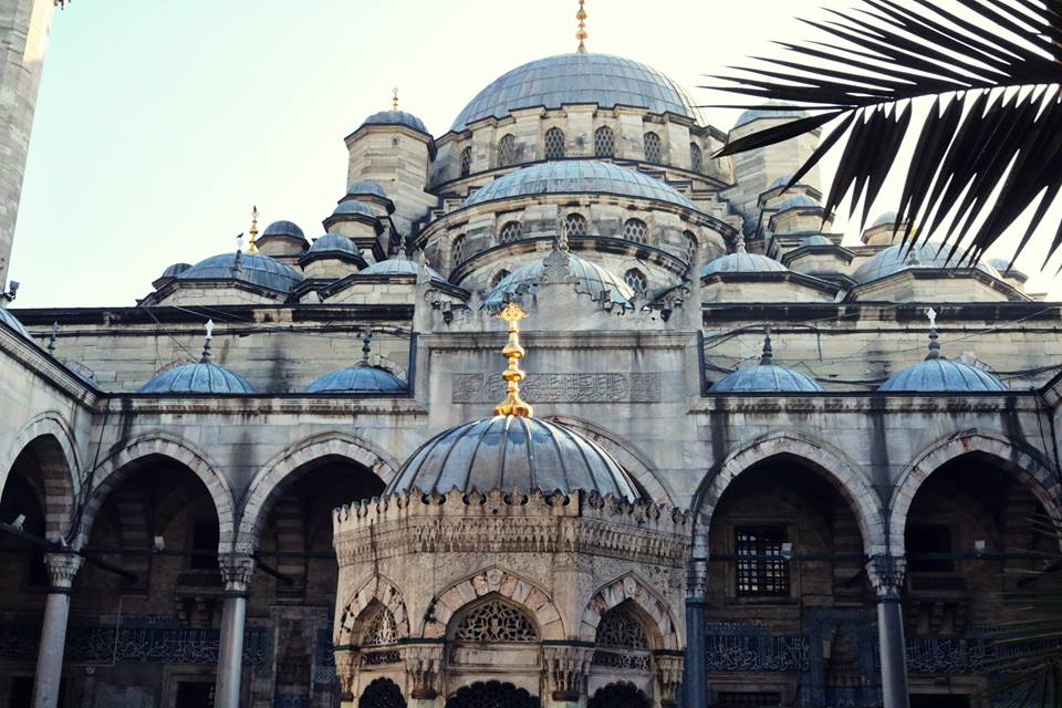 New mosque in Istanbul